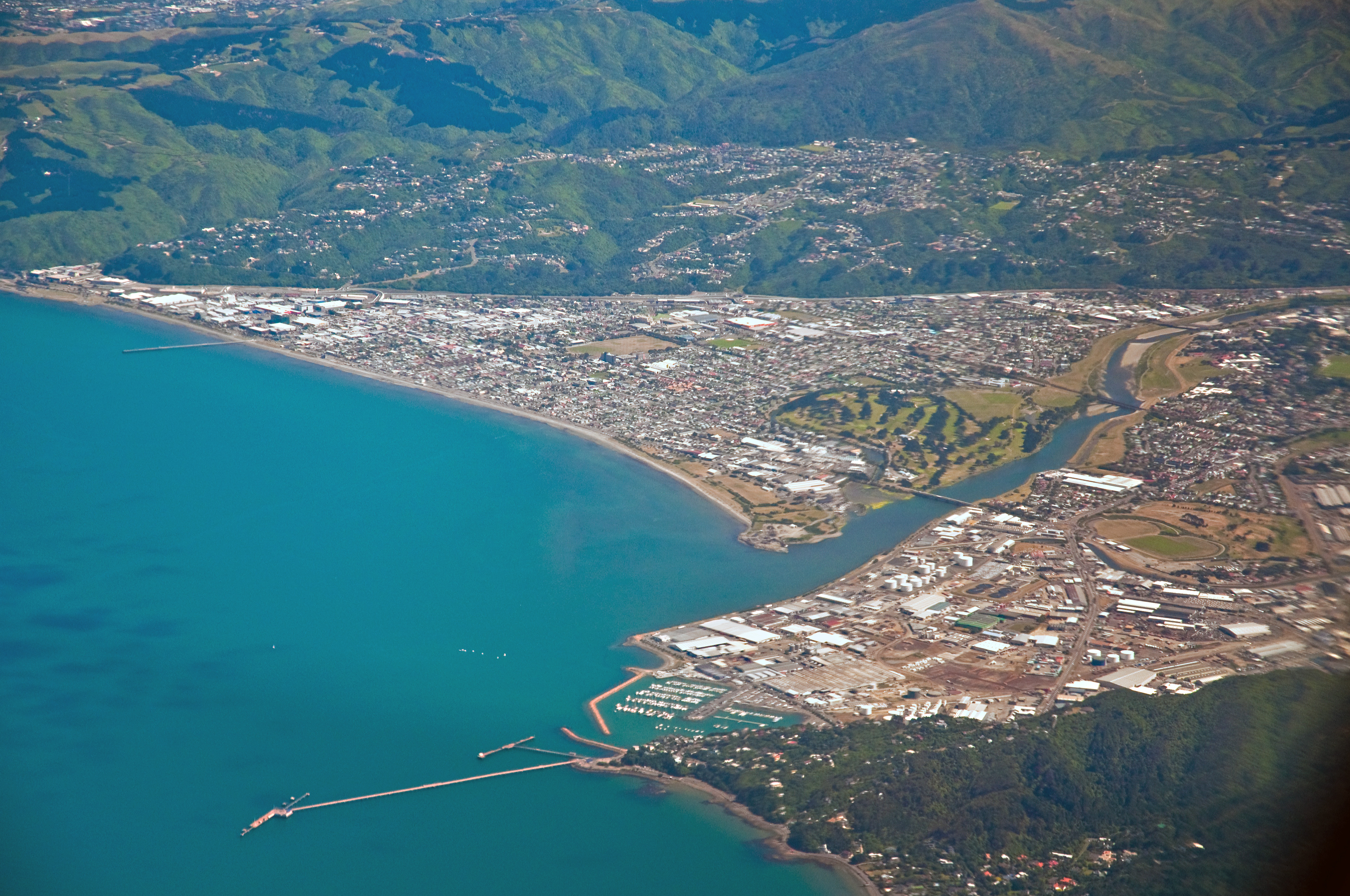 From an Eagle Airways Beech 1900D departing Wellington for Whangarei.